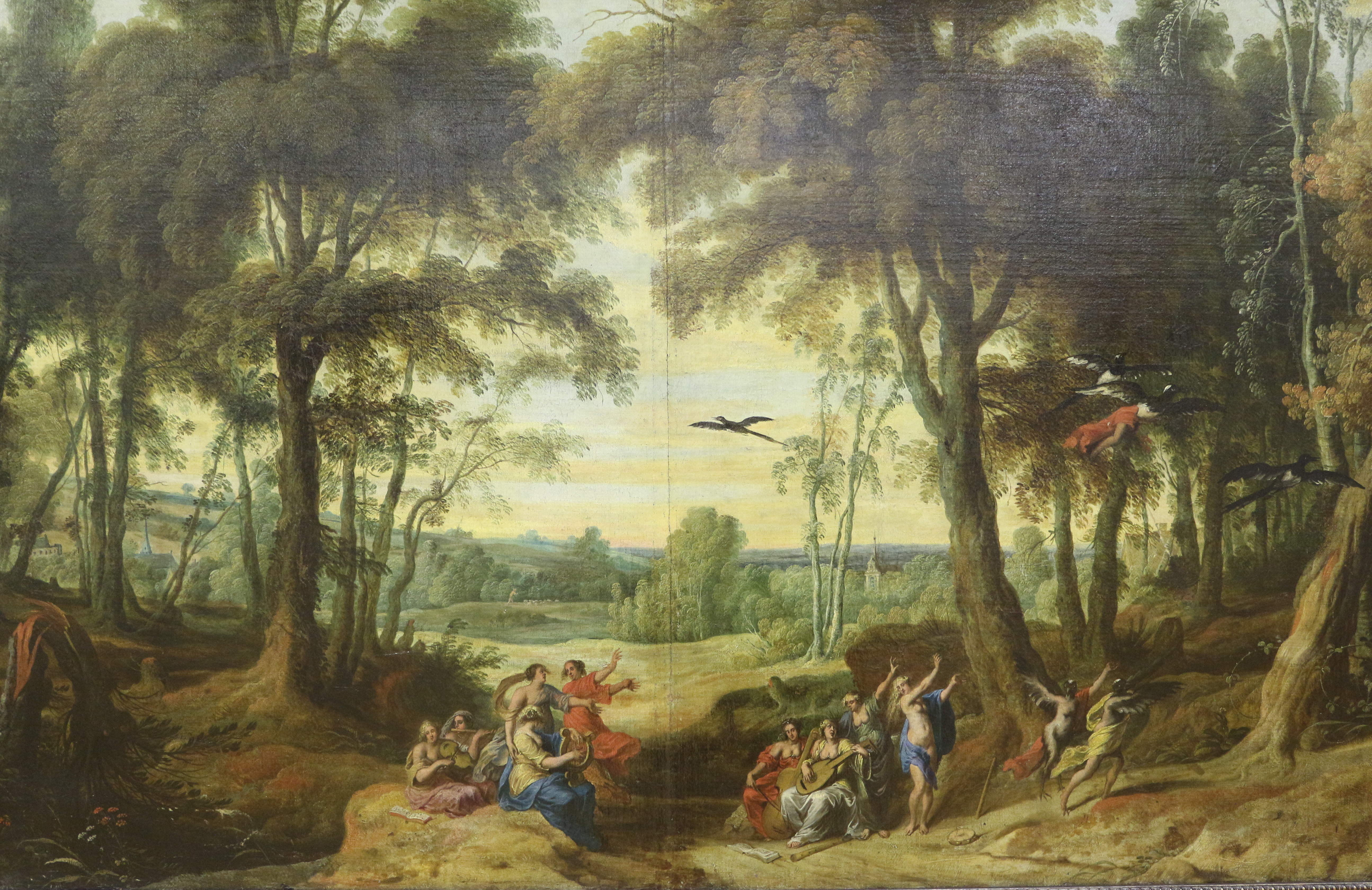 Jan Wildens "Transformation of Women into Magpies"